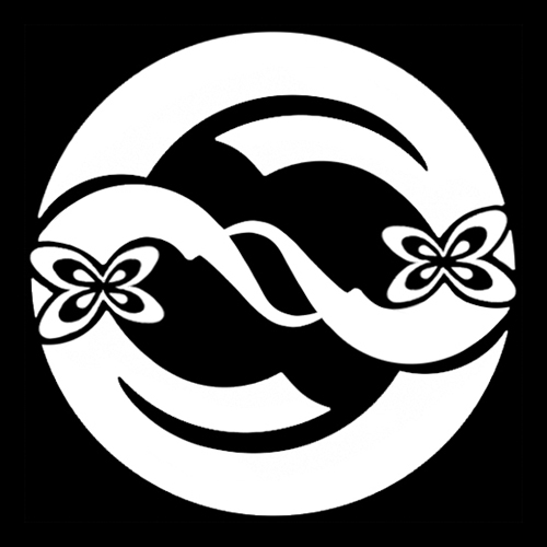 The "Kyôya" knot. Named after its associated kabuki house.